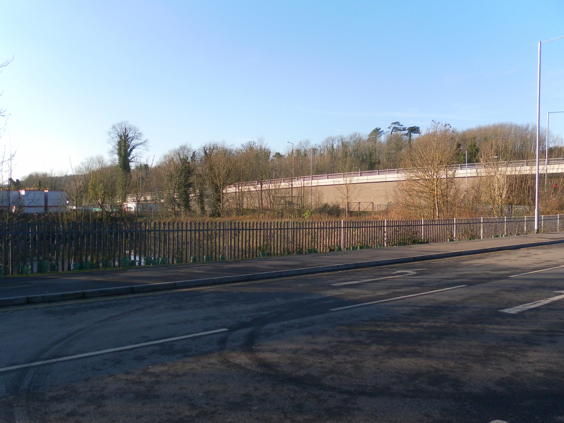 The Keep under construction in December 2012; this view shows fencing and empty land at the eastern edge of the site, and the newly improved road leading from the A270/A27 junction to the building's new access road and the Brighton Aldridge Community Academy school. The Keep is an archive and historical resource centre situated at Woollards Field, between Moulsecoomb and Falmer, on the edge of the City of Brighton and Hove, England. It will open in 2013 and will house East Sussex County Council's archives and records (going back over 900 years) and various other sets of historical documents and objects.